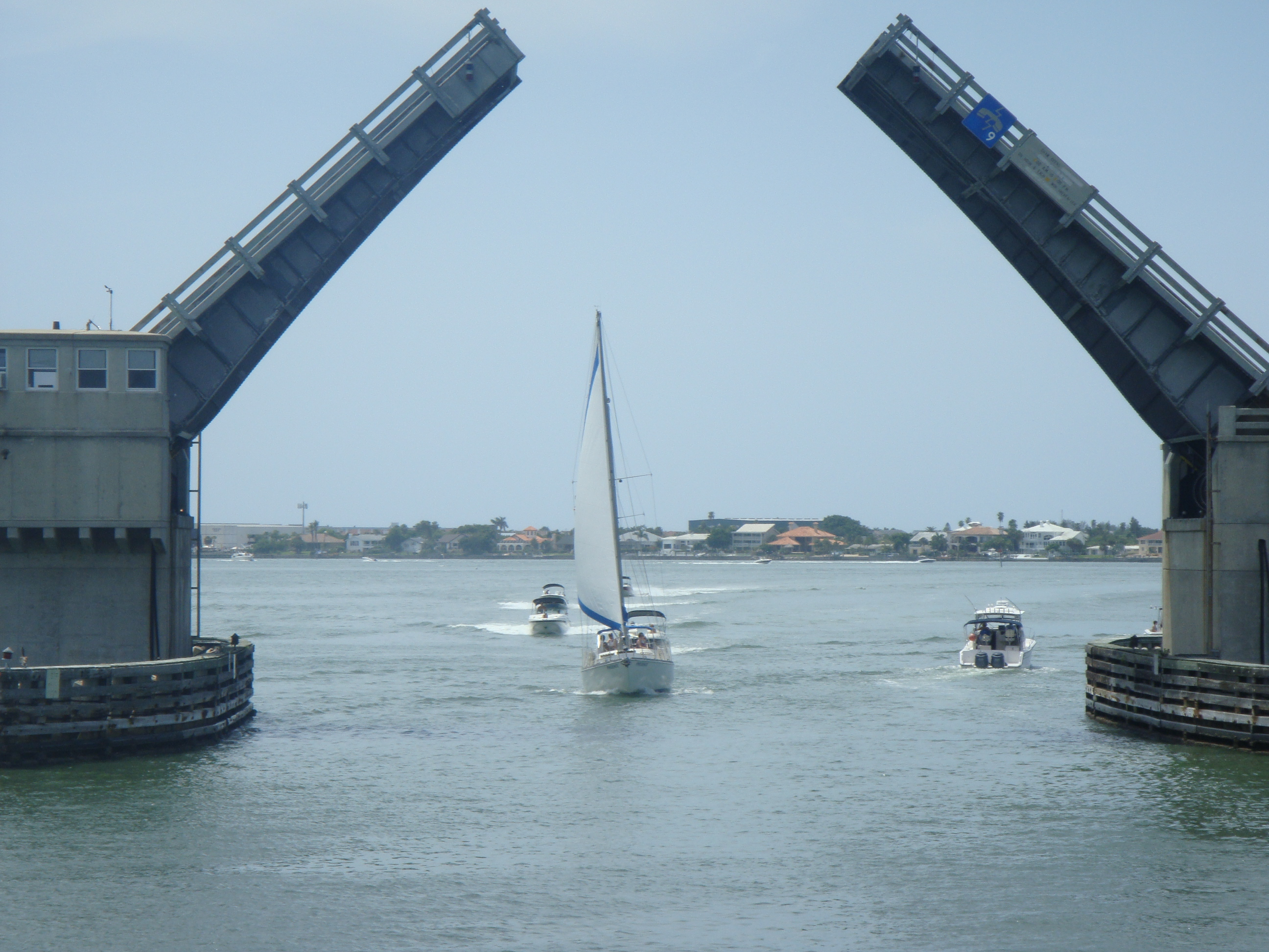 The Pinellas Bayway Drawbridge, or "Structure C" bridge, in St. Petersburg, Florida, with its double-leaf bascule draw span opened to allow a sailboat to pass. Built in 1961, this drawbridge, and the longer viaduct of which it was part, were closed in 2013 and replaced by a new, high-level bridge that was constructed adjacent. The old and new bridges carried/carry Florida state highway SR 682 (and 35th Avenue) over Boca Ciega Bay.